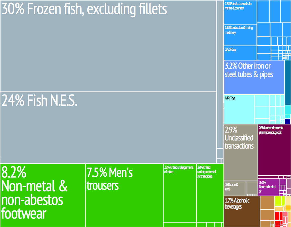 Export Trading Treemap. From MIT/Harvard Atlas of Economic Complexity